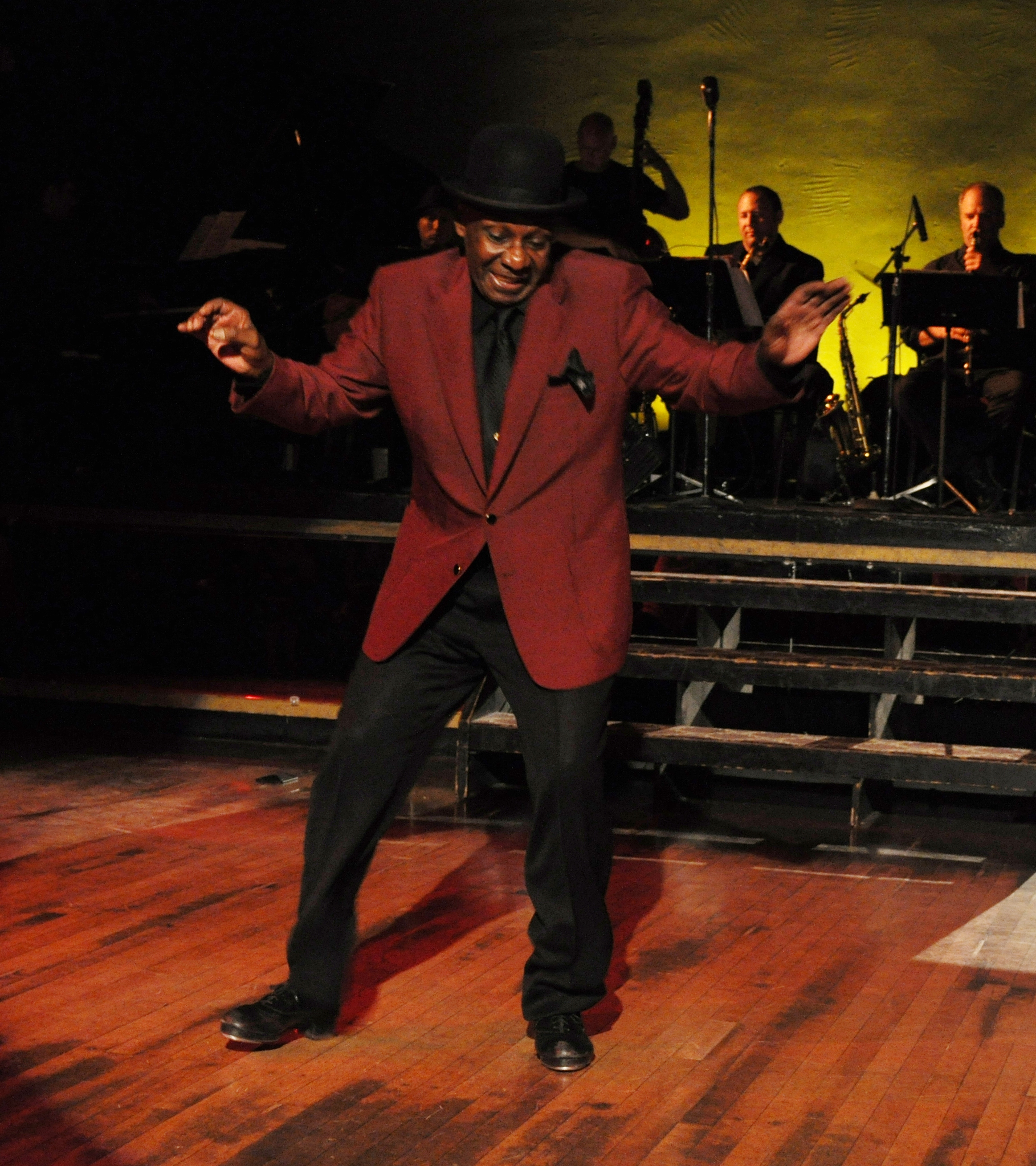 Dancer Chazz Young appearing at Masters of Lindy Hop and Tap, Century Ballroom, Oddfellows Temple, Pine Street, Capitol Hill, Seattle, Washington, USA. See Chazz Young on the site of that event for more about Young.